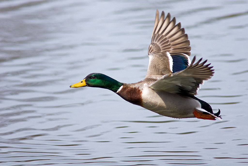 A male Mallard flying in Voorhees Township, New Jersey, USA.